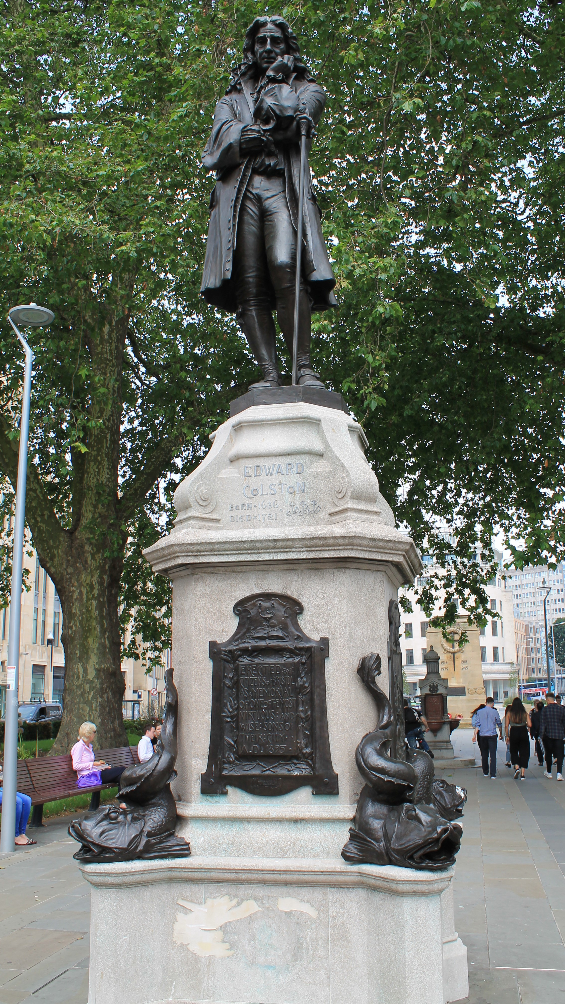 Erected in 1895, on 7 June 2020 the statue was defaced, toppled and thrown into Bristol harbour during the George Floyd protests.